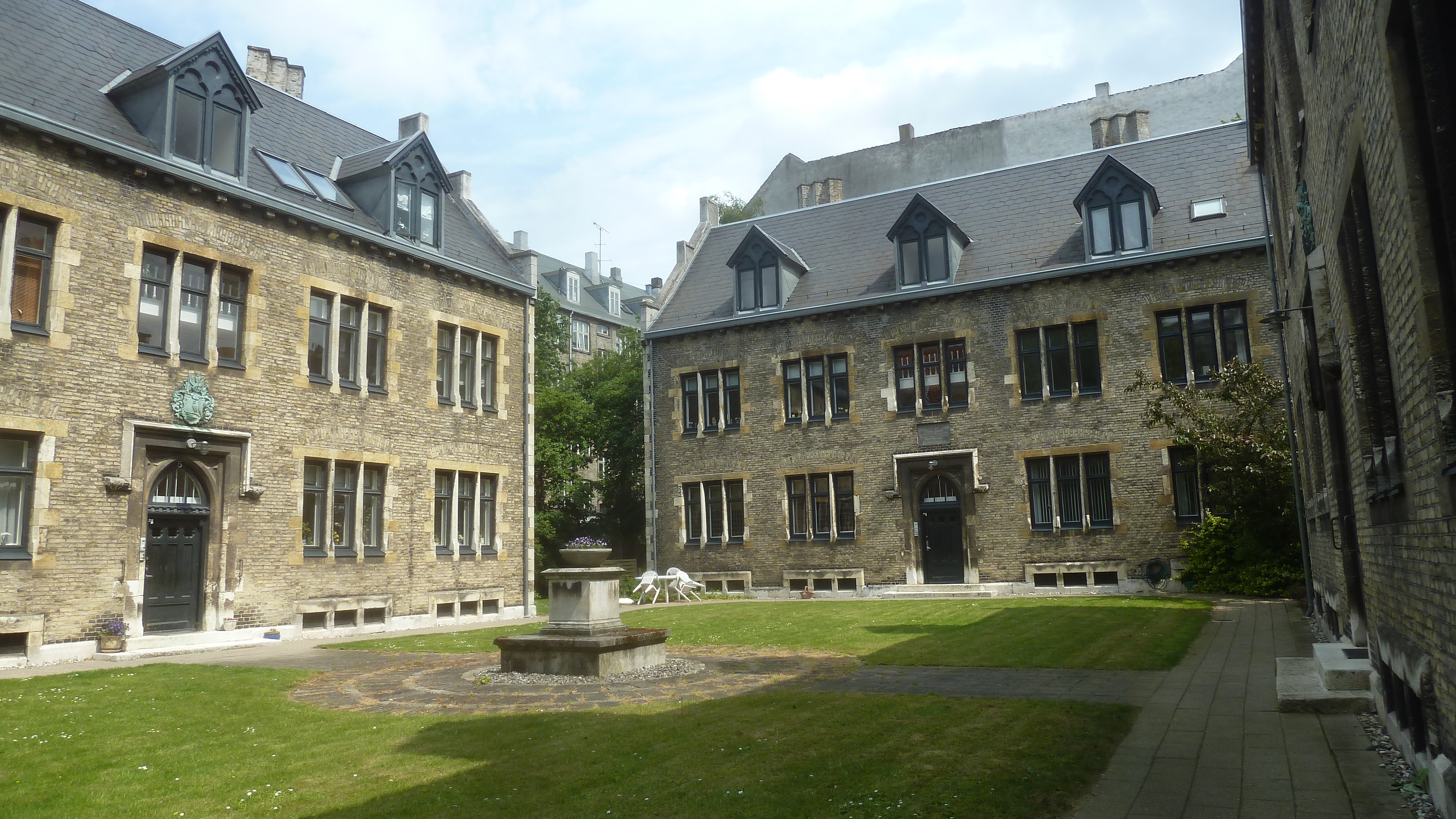 Den Suhrske Stiftelse on Valdemarsgade in Copenhagen, Denmark